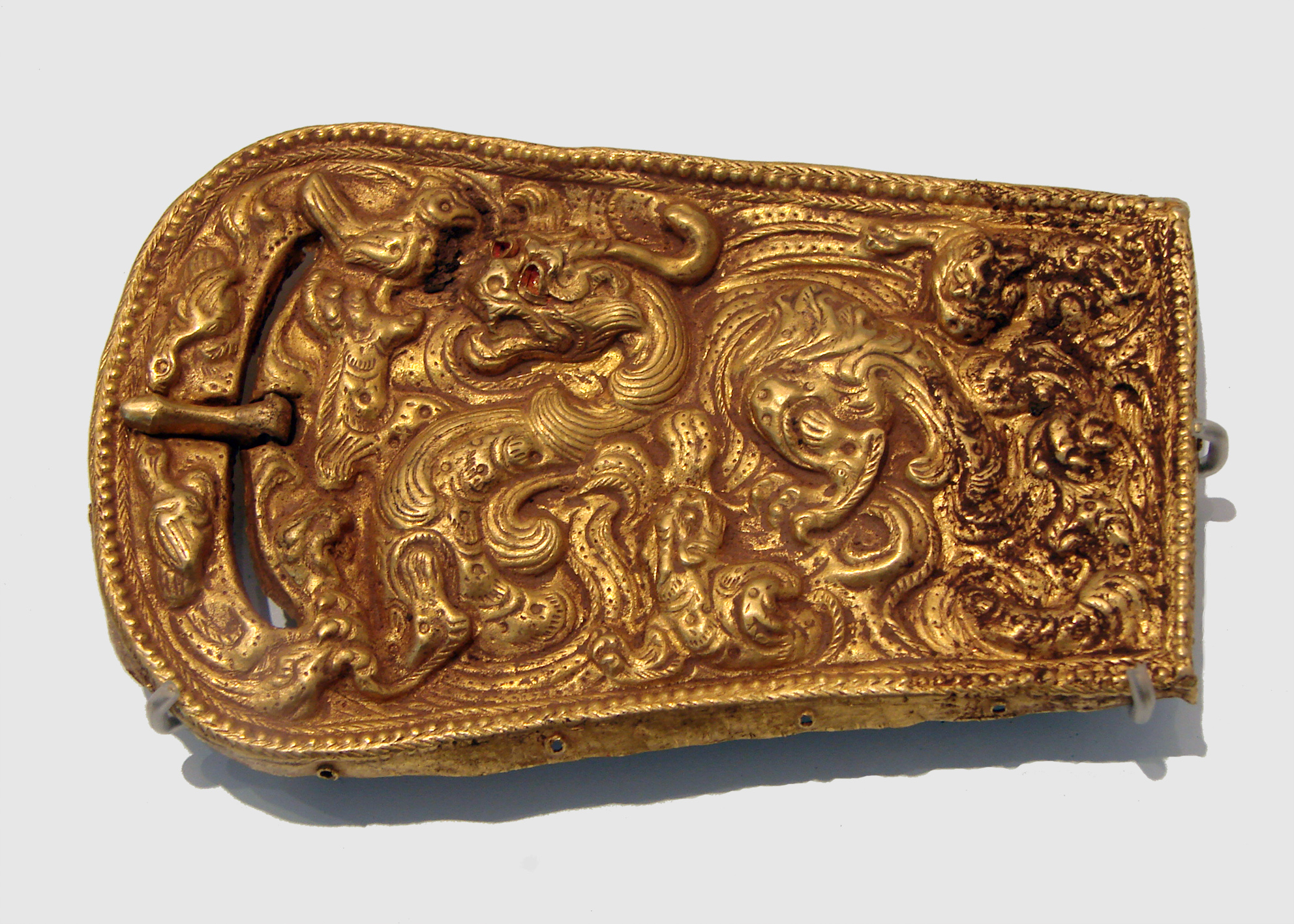 Ornemental belt buckle, decorated with a mythical animal and birds. Chiseled and hammered gold, late Han period, first or second century. Guimet Museum, Paris.